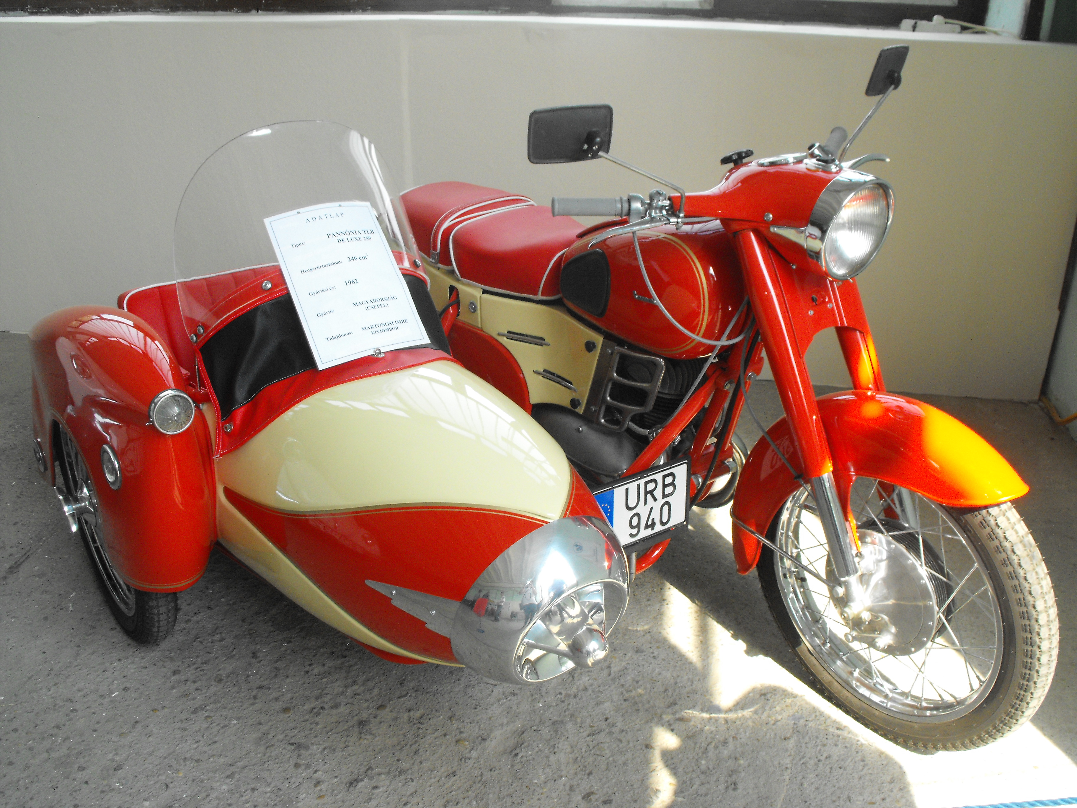 Pannonia TLB De Luxe 250 motorcycle in the Internation Onion Festival, Makó, Hungary, in 2009.